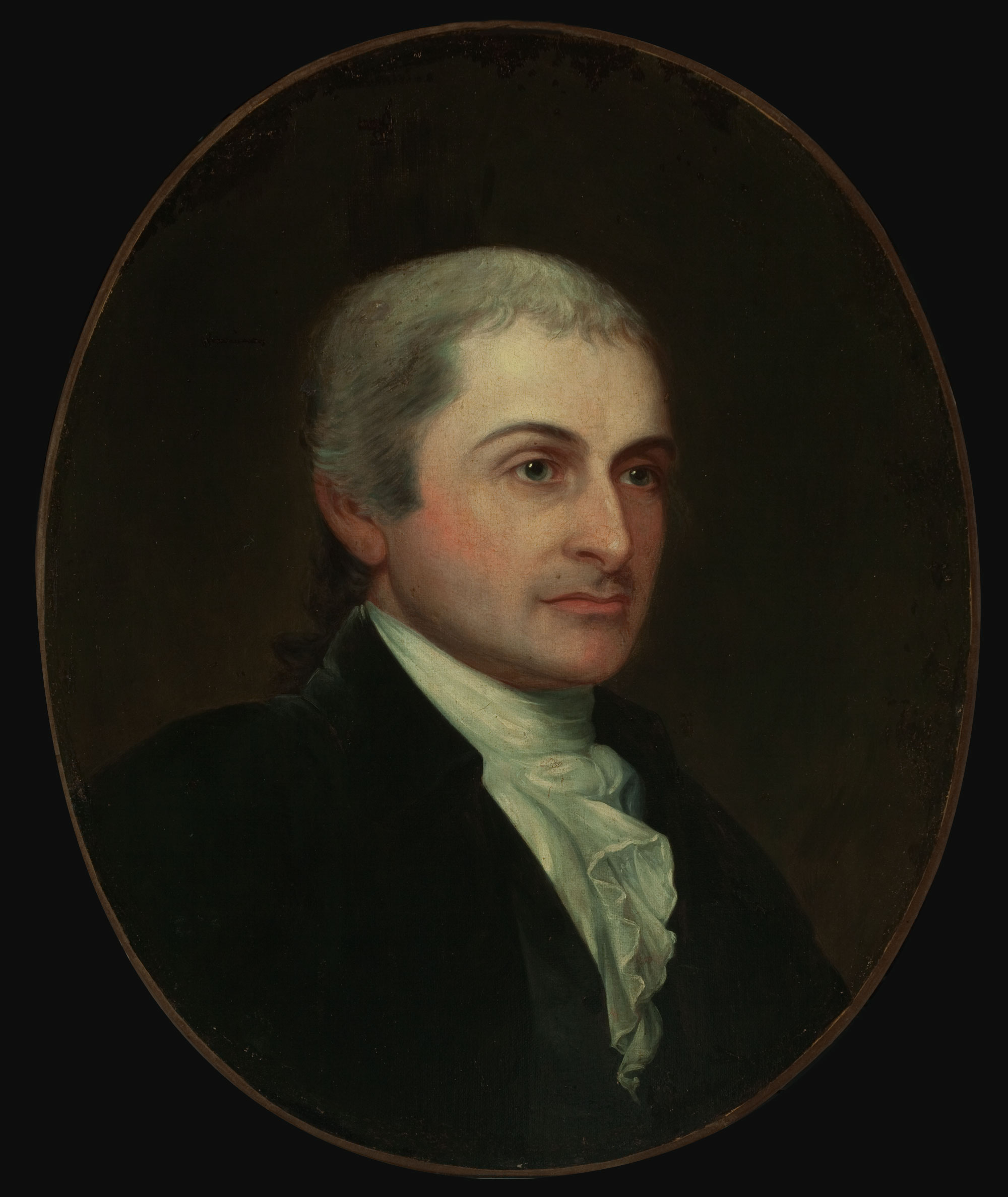 Official Gubernatorial portrait of New York Governor (and United States Chief Justice) John Jay.